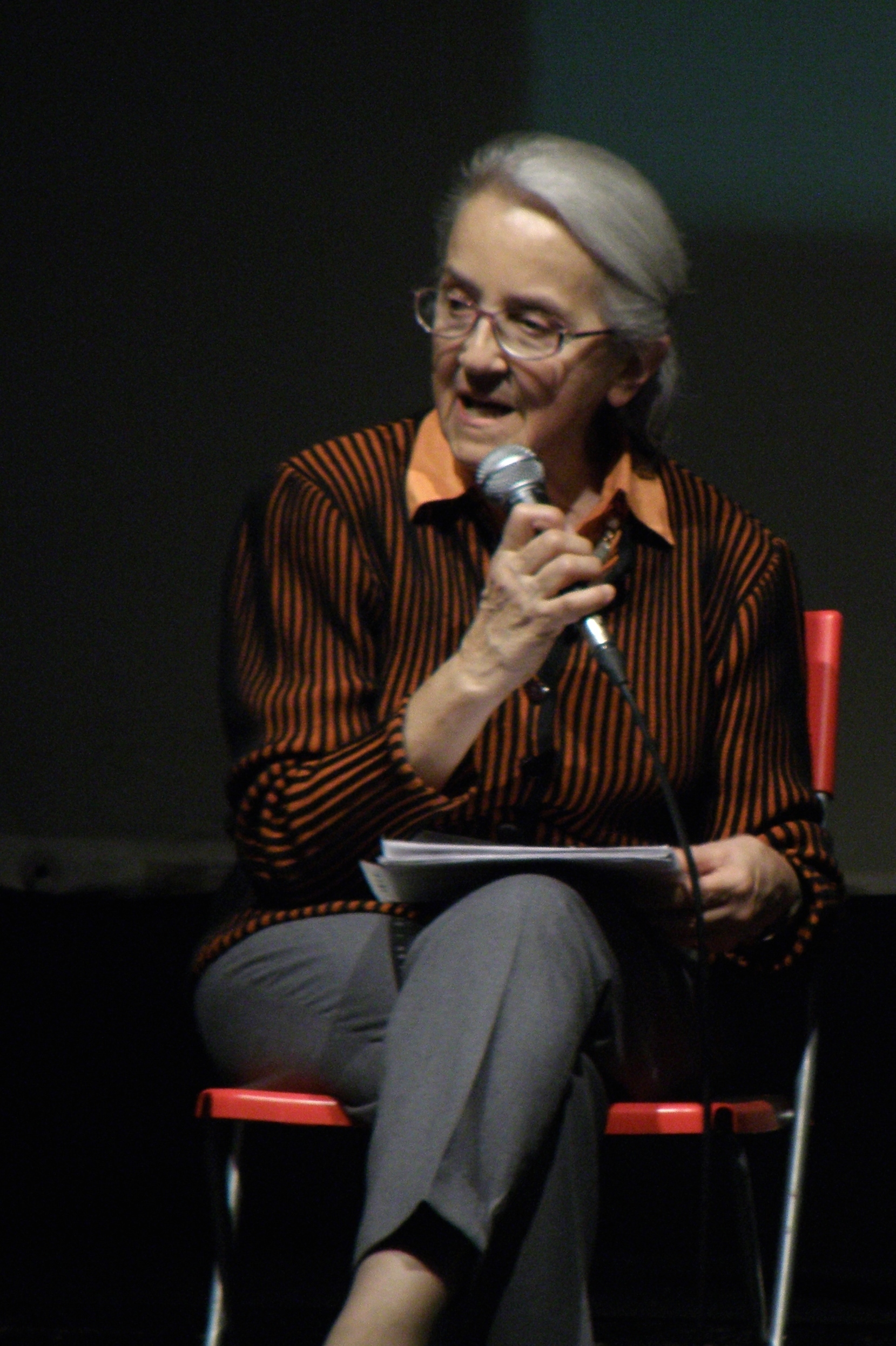 Wilhelmine Schett, known in Italy as Mina Welby, is the wife of Piergiorgio Welby, who is a notable case of euthanasia in Italy. Photo taken after the play "Sospesi tra cielo e terra", in Milano.